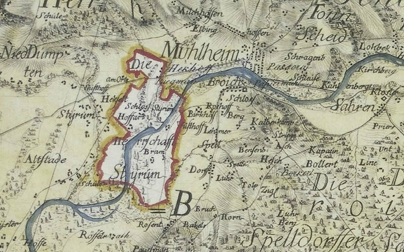 Fief Styrum (Netherlands): part of bigger map: Topographische Carte von dem Herzogthum Berg